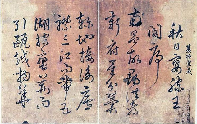 The Korean calligraphy titled "Jeungryu yeojang seochep" written by Han Ho